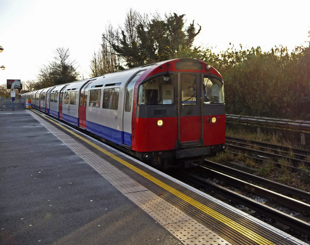 Piccadilly Line Train entering Oakwood Station, London N14